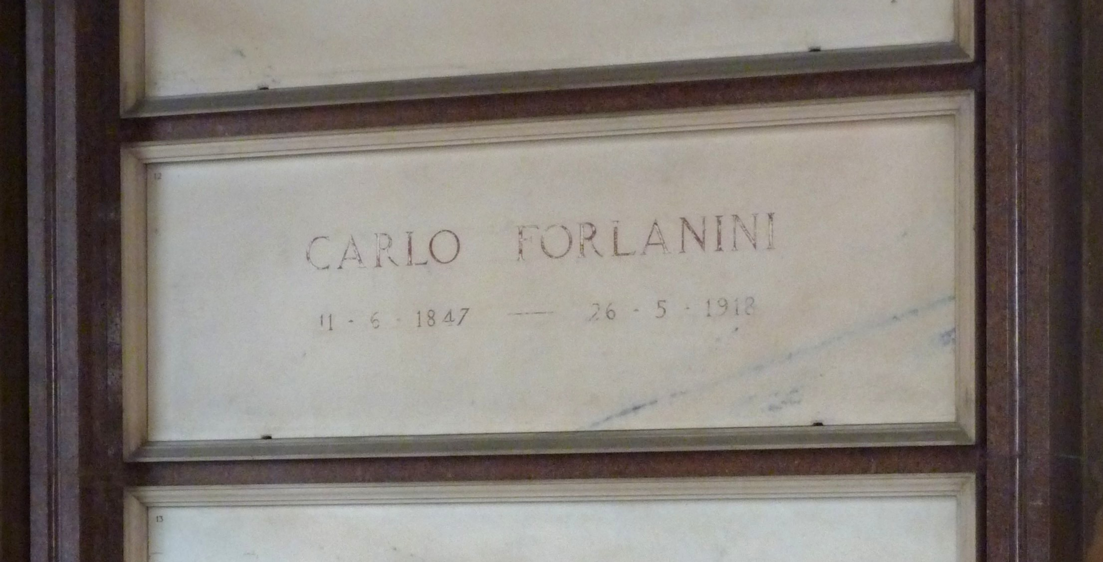 The grave of Italian physician Carlo Forlanini at the Cimitero Monumentale in Milan, Italy.